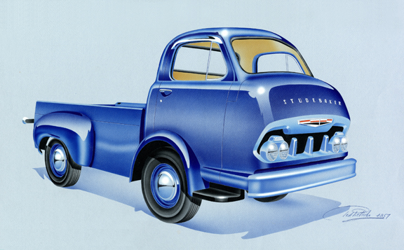 The original drawing has been donated to the Museum of Fine Arts, Boston, but the image posted here was made by me, T. W. Pietsch III. Please see the correspondence below from Jennifer C. Riley, Head of Image Licensing and Digital Archives Museum of Fine Arts, Boston. You may tell them that while the Museum of Fine Arts, Boston owns the artwork; we do not retain the copyright to Theodore Wells Pietsch II’s images. Best, Jennifer Jennifer Riley Head of Image Licensing and Digital Archives Museum of Fine Arts, Boston | 617-369-3777 Dear Mr. Pietsch, Regarding copyright, you retain copyright to any photos you took of the drawings made by your father. The copyright to the artworks and photographs does not revert to the Museum automatically upon donation of the works. The copyright to the photographs that you took stays with you so you have every right to upload those photos to Wikipedia. I am happy to provide you with language necessary for you to pass on to Wikipedia so you can reload the images. Since the Museum does not, in fact, hold the copyright to those photos, we cannot upload them. Best, Jennifer Jennifer Riley Head of Image Licensing and Digital Archives Museum of Fine Arts, Boston | 617-369-3777